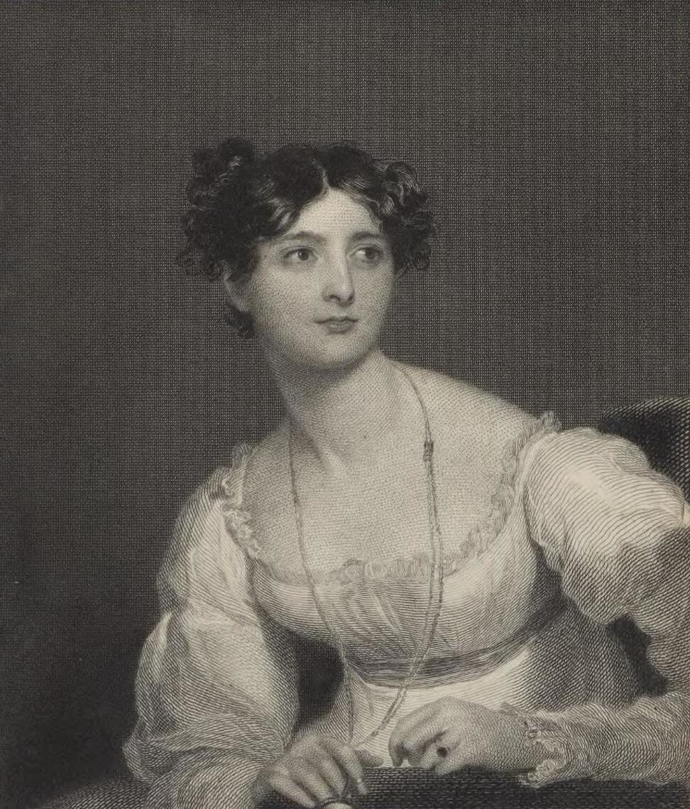 A portrait from the Welsh Portrait Collection at the National Library of Wales. Depicted person: Harriet Arbuthnot – diarist